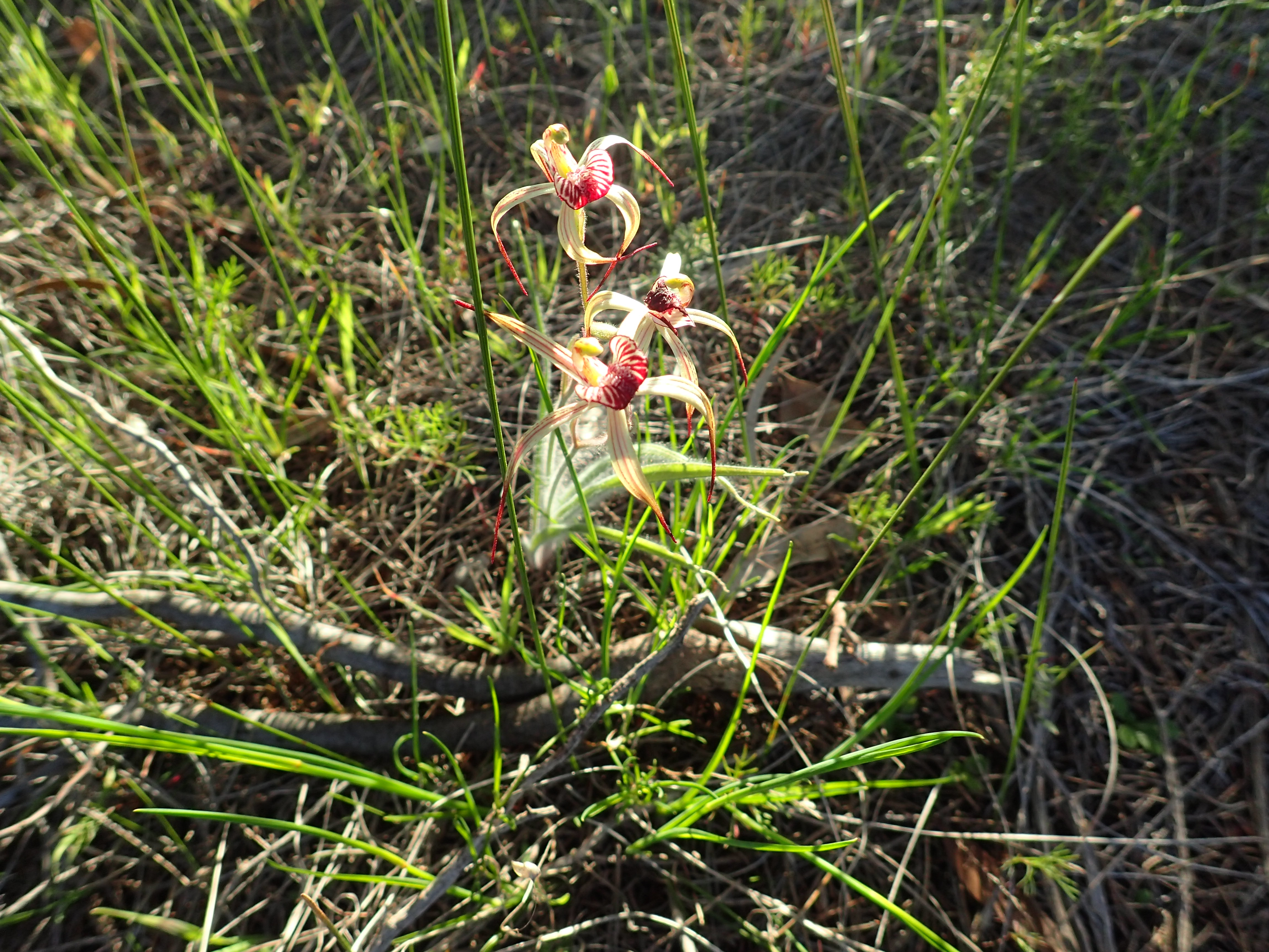 Caladenia radialis growing at the Hill River crossing on the Brand Highway north of Badgingarra in Western Australia